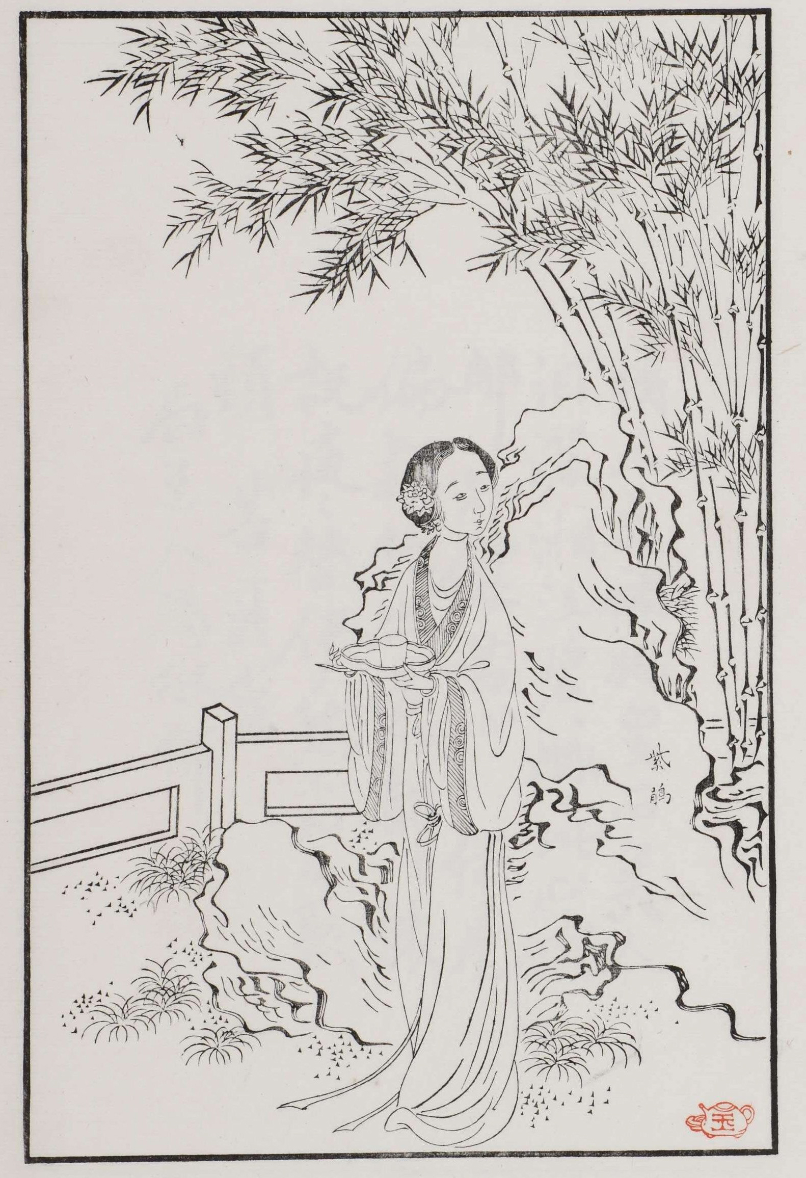 Zijuan